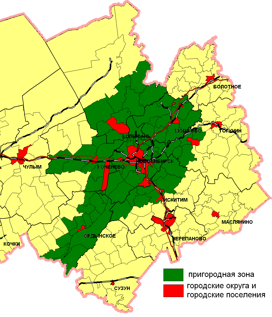 Novosibirsk, Russia, suburban zone (defined with local law № 93-ОЗ 2003-02-13) filled with green